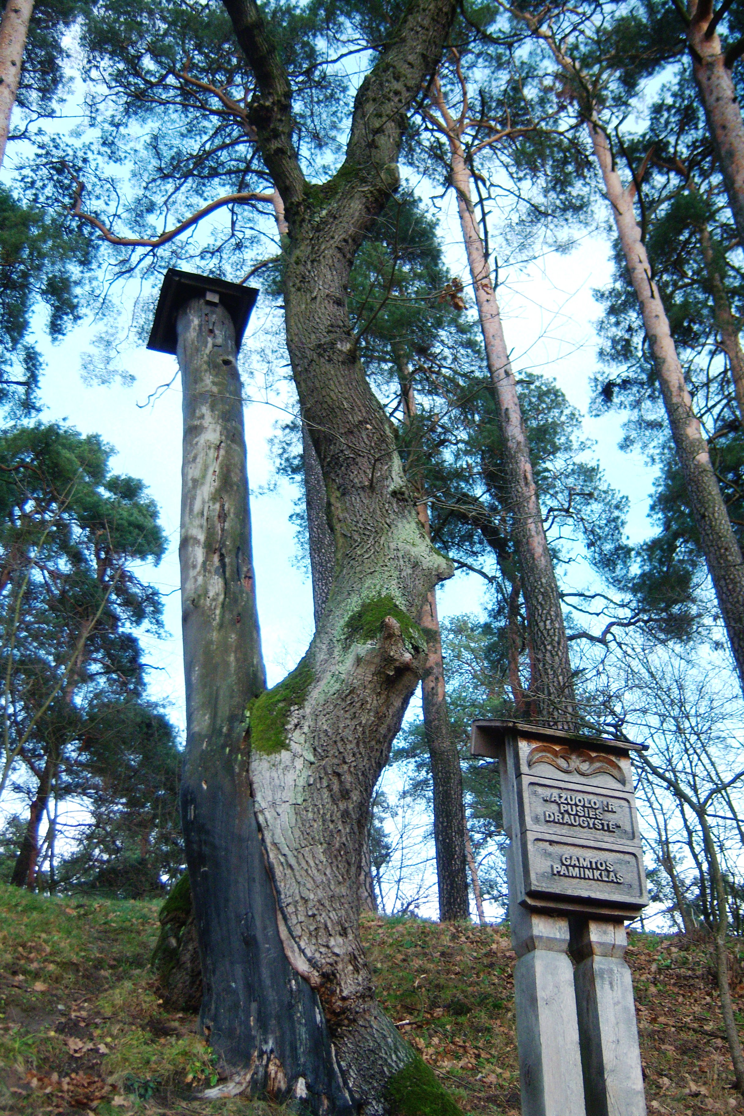 Twin trees - oak and pine, natural heritage object, Panemunė park, Kaunas, Lithuania.